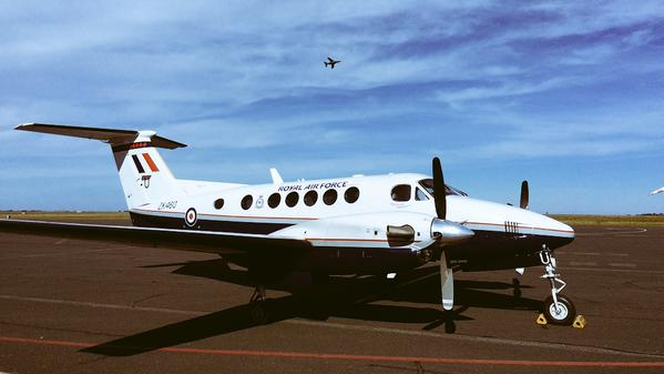 45(R) Sqn King Air B200 GT parked at La Rochelle Airport in France, 2015 during Course No. 217's Overseas Training Flight.